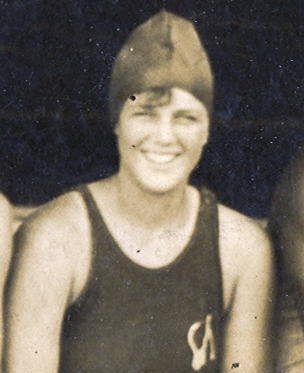 1920 Hawaii team to Olympic tryouts. Left to right: Helen Moses